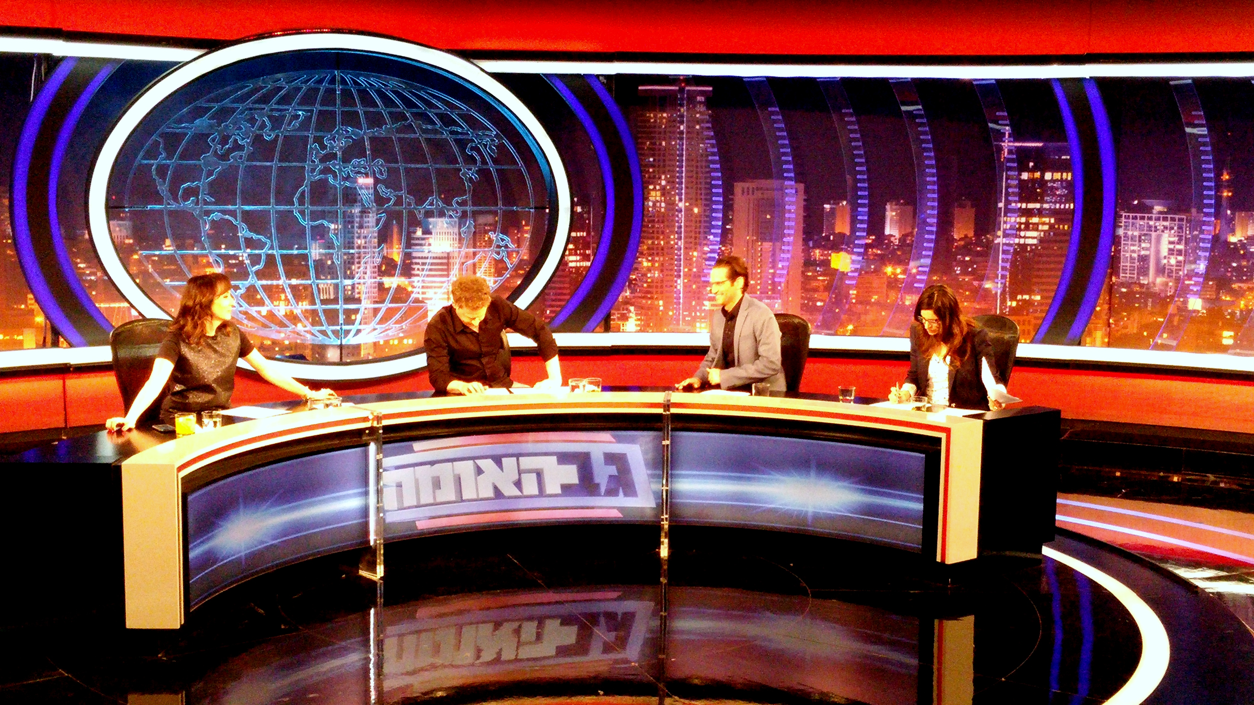 "Gav Ha'uma", a satirical Israeli television show. Filmed in Herzliya, 2015.